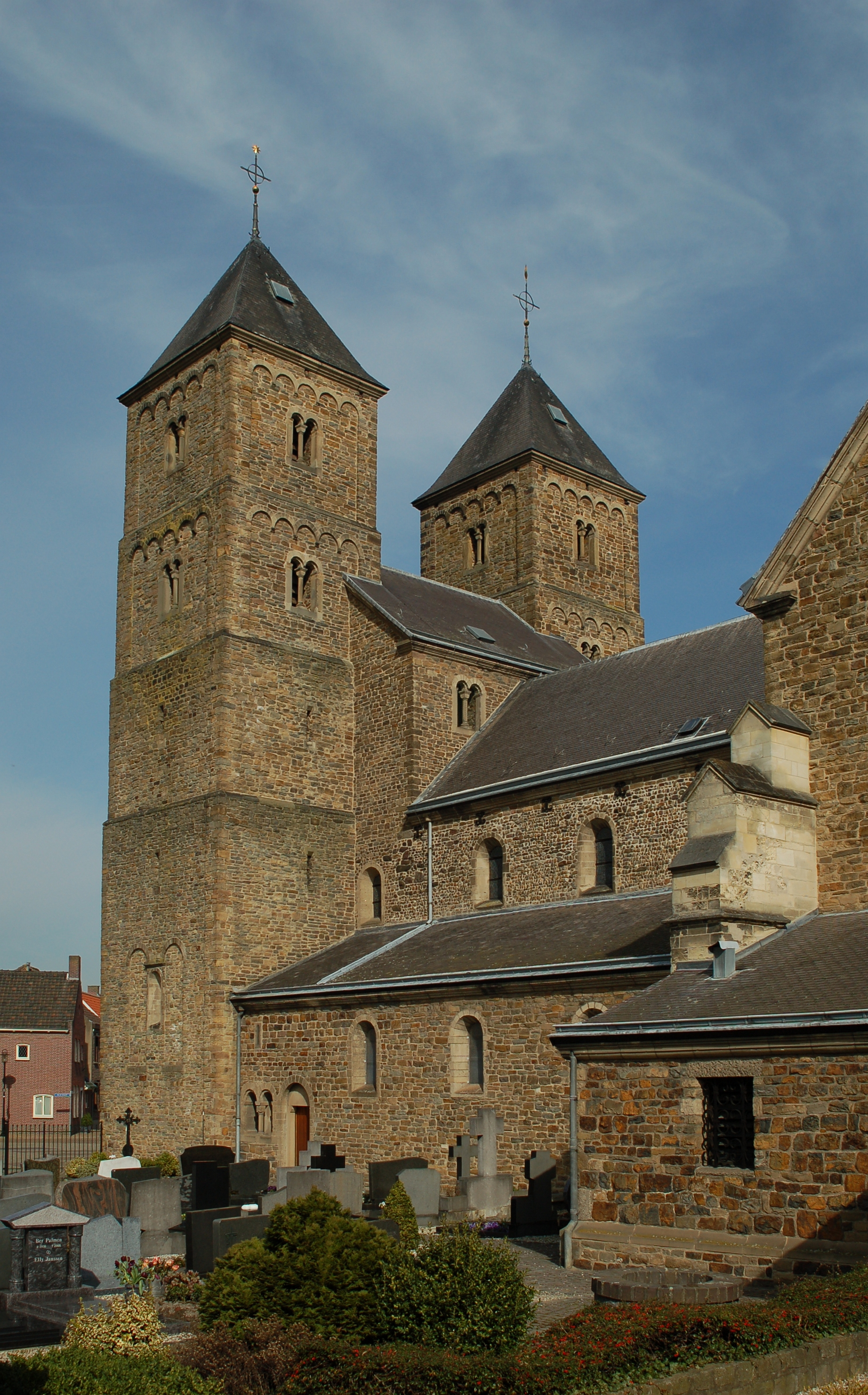 St. Amelbergachurch in Susteren, Netherlands